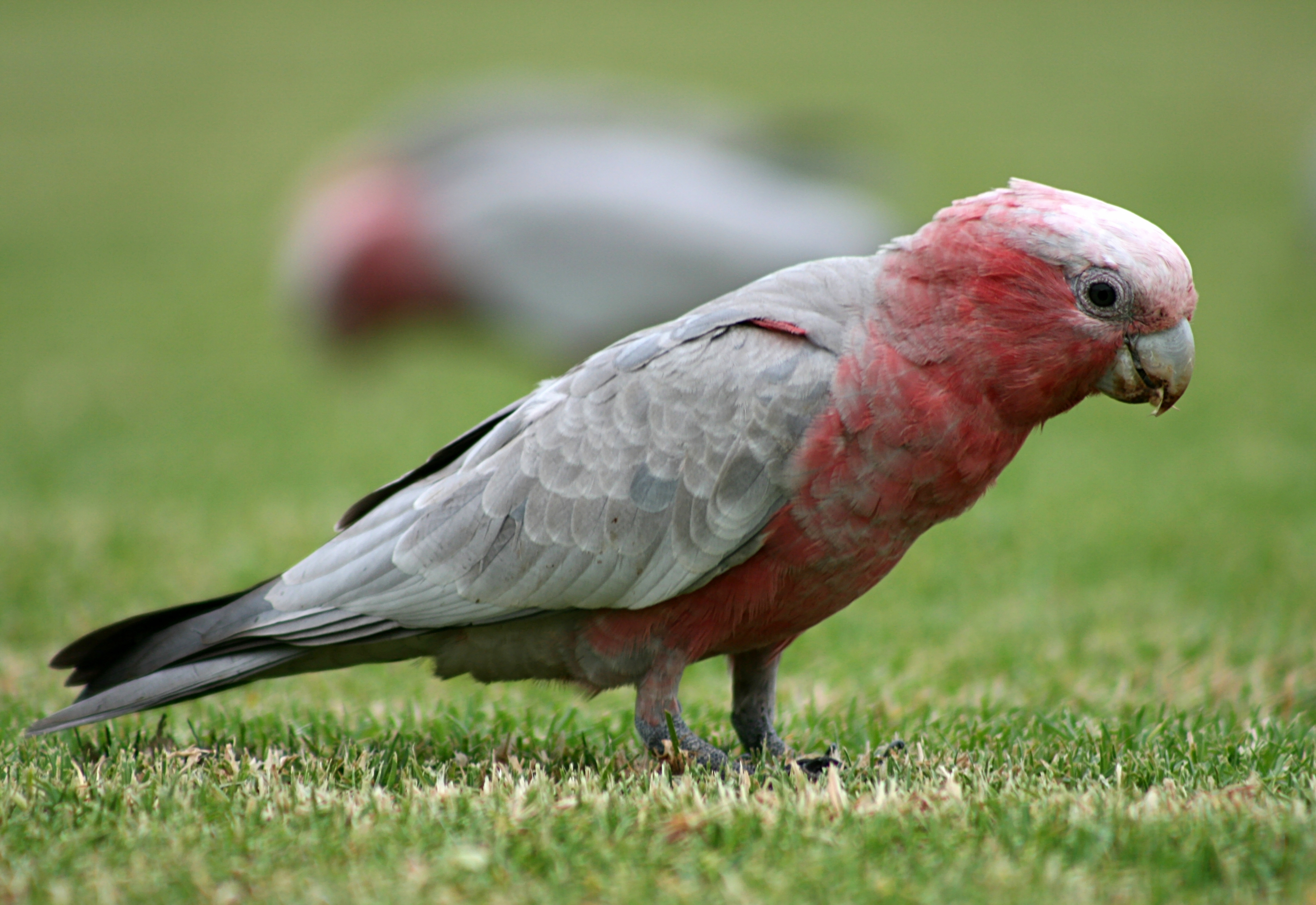 A juvenile Galah on a sportsground in suburban Sydney, Australia.